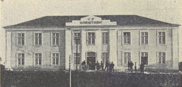 Workers dormitory at Alfarelos Railway Station, in Portugal. It was inaugurated on the 13th April 1933. This photograph was originally published in the Gazeta dos Caminhos de Ferro No. 1089, of the 1st May 1933, and scanned by the Hemeroteca Municipal de Lisboa.